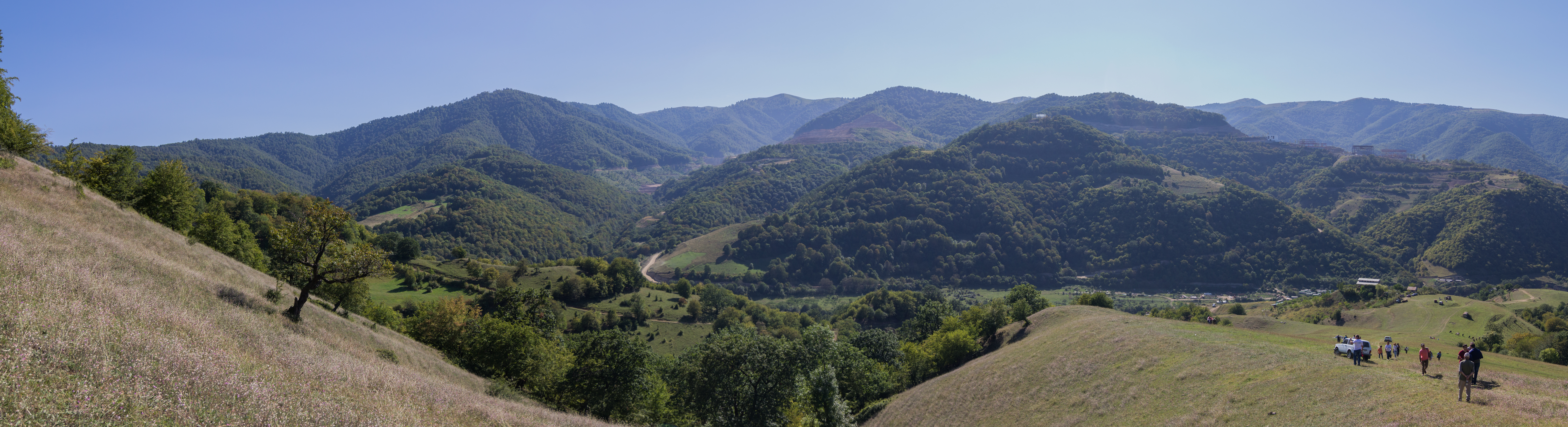 Panorama of eastern region of Teghut Copper-Molybdenum Mine in Armenia's northern Lori province.